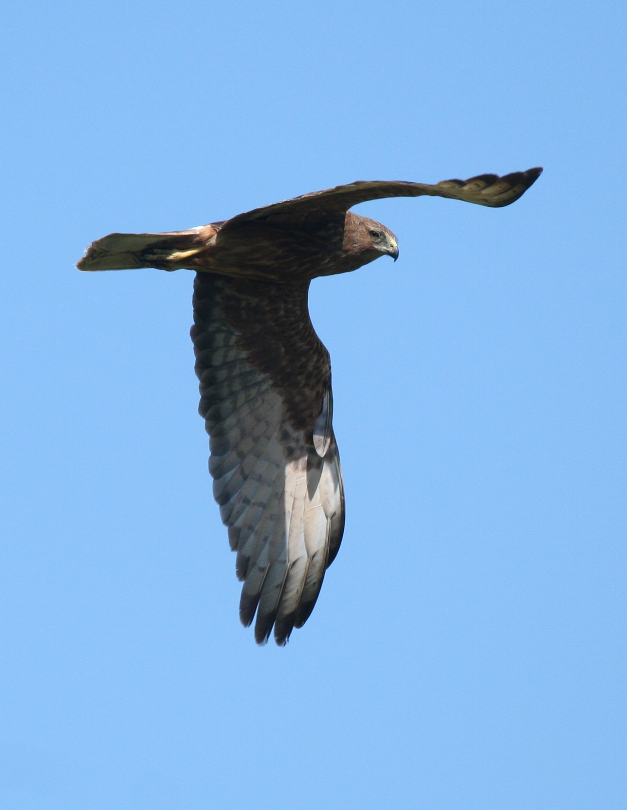 Circus approximans gouldi, sideways glance from a bird in flight. Commons names: Swamp Harrier, Marsh Harrier, Australasian Harrier. Note: Author requires attribution by footnote if used on Wikipedia, footnote to link to his flickr page. Suggested use: Photograph of Australasian Harrier by [ Roger South]